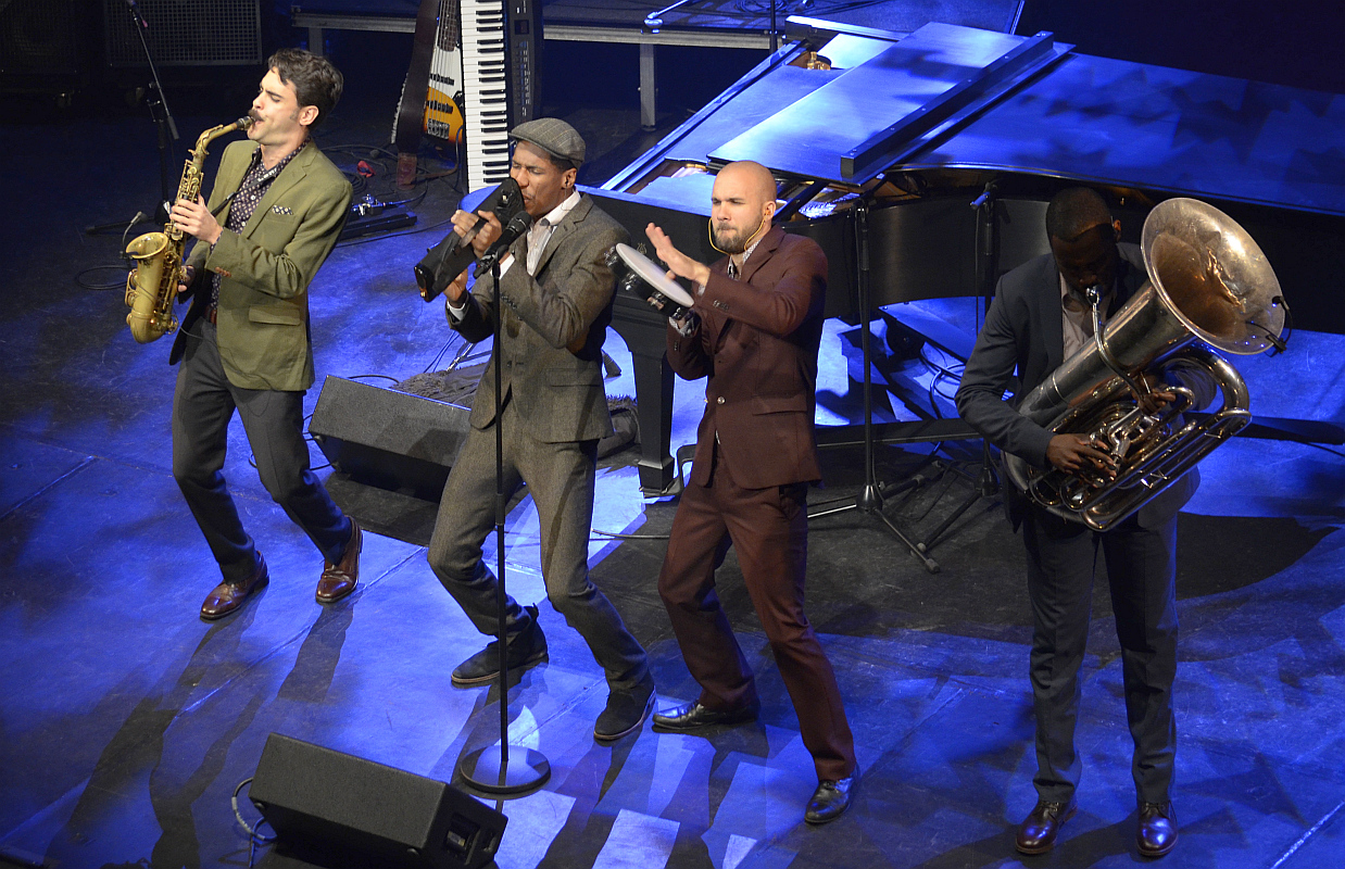 Stay Human at the Flato Markham Theatre, 2014